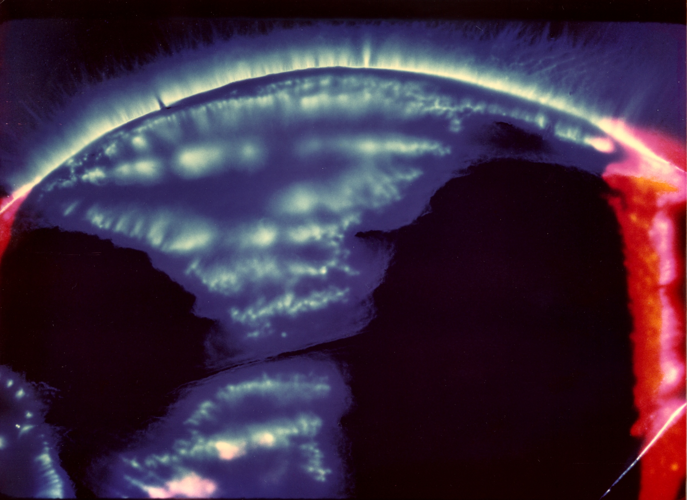 Color Kirlian photo of leaf